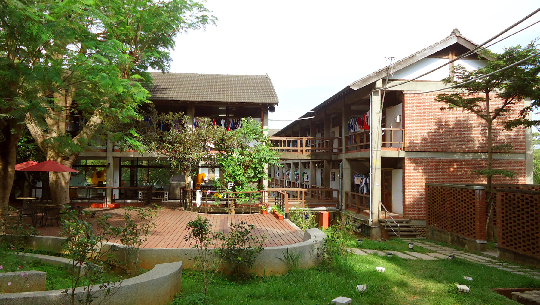 Tunghai University, Taichung, Taiwan.